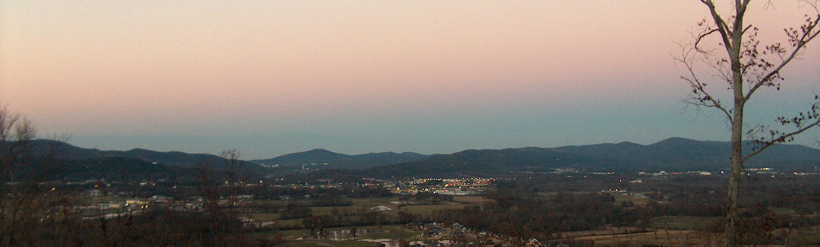 Oxford at Dusk.